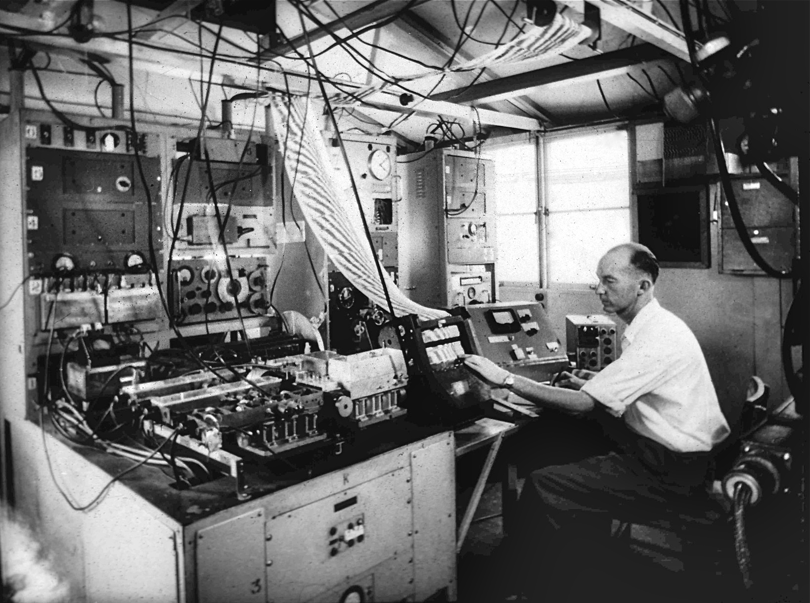 Monochrome photograph of man (Kevin Sheridan) in room with electronic equipment and many cables straggling from the ceiling and elsewhere, with his hand on a black machine.